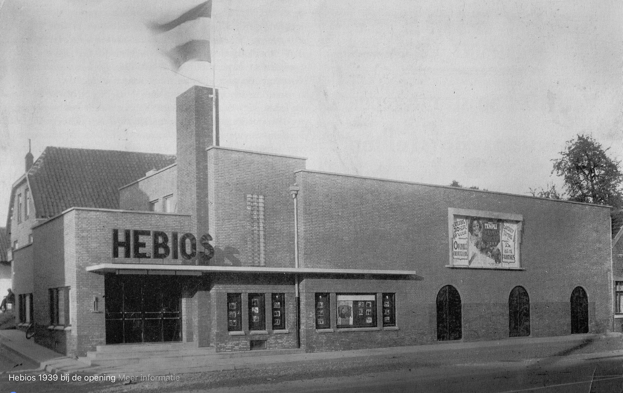 Opening of cinema Hebios in 1939, Akersteenweg 49, Heer, The Netherlands.